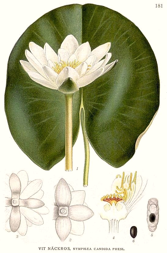 Nymphaea alba subsp candida (C.Presl) Korshinsky Original Description Vit näckros, Nymphaea candida Presl.